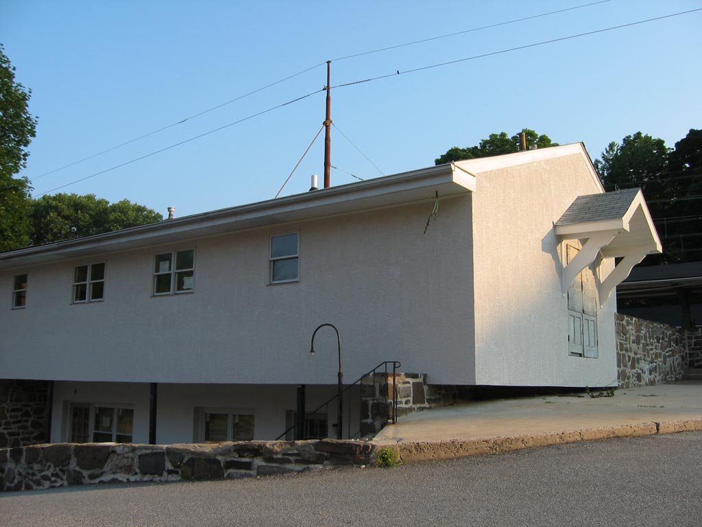 Photo of St Davids train station in St Davids, Pennsylvania.